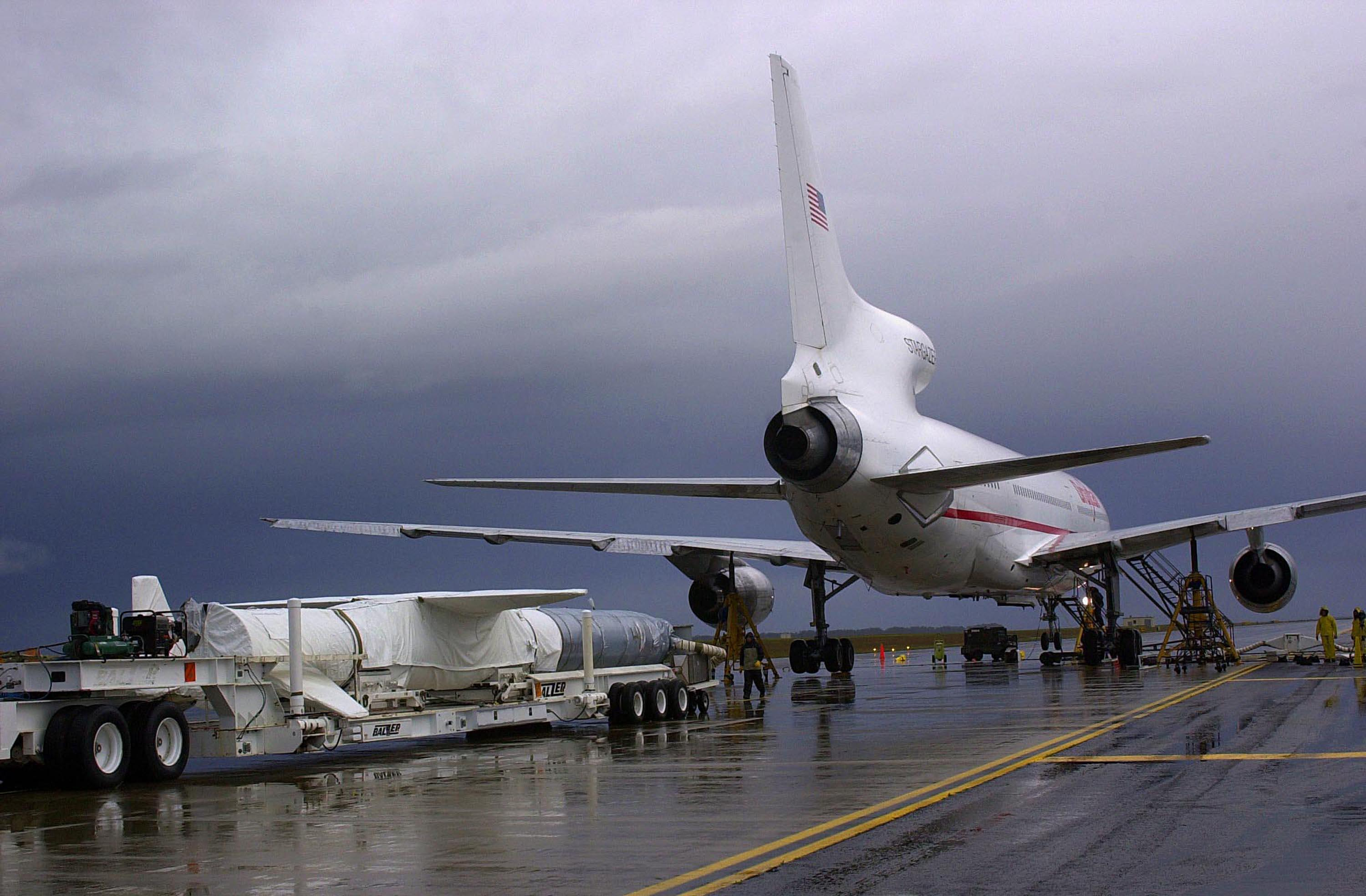 On the ramp adjacent to the runway at Vandenberg Air Force Base in California, the Space Technology 5's Pegasus rocket is placed in position to be mated to the underside of an Orbital Sciences L-1011 carrier aircraft. The ST5, which contains three microsatellites with miniaturized redundant components and technologies, is mated to its launch vehicle, Orbital Sciences' Pegasus XL. Each of the ST5 microsatellites will validate New Millennium Program selected technologies, such as the Cold Gas Micro-Thruster and X-Band Transponder Communication System. After deployment from the Pegasus, the micro-satellites will be positioned in a “string of pearls” constellation that demonstrates the ability to position them to perform simultaneous multi-point measurements of the magnetic field using highly sensitive magnetometers. The data will help scientists understand and map the intensity and direction of the Earth’s magnetic field, its relation to space weather events, and affects on our planet. Launch of ST5 and the Pegasus XL will be from underneath the belly of an L-1011 carrier aircraft from Vandenberg Air Force Base.